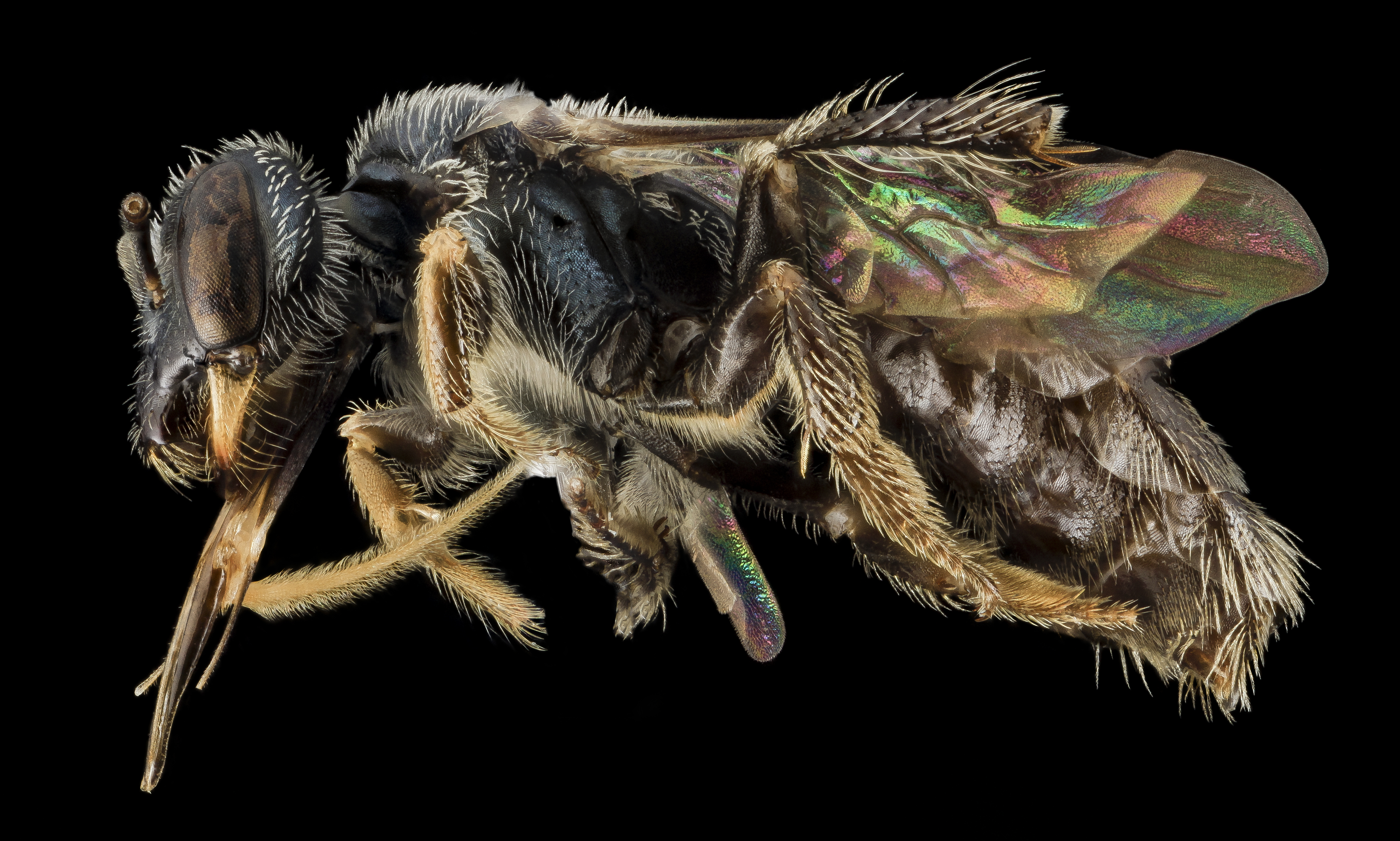 New Vermont Species Record. This little tiny bee is a specialist on a plant that most people pull out of their gardens, Physalis, or Ground Cherry, this plant has a number of specialists associated with it and, we should think about it as something to plant in our gardens! Anna Beauchemin is the finder of this new record and Brooke Alexander the photographer. Canon Mark II 5D, Zerene Stacker, Stackshot Sled, 65mm Canon MP-E 1-5X macro lens, Twin Macro Flash in Styrofoam Cooler, F5.0, ISO 100, Shutter Speed 200, link to a .pdf of our set up is located in our profile